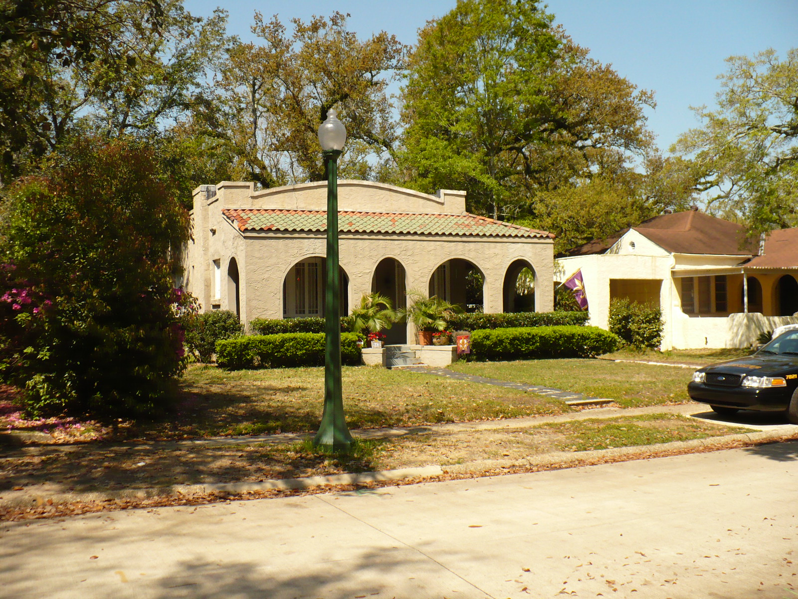 143 Florence Place in Mobile, Alabama. A modest example of Spanish Colonial Revival architecture on the Central Gulf Coast of the United States. Individually listed on the National Register of Historic Places.